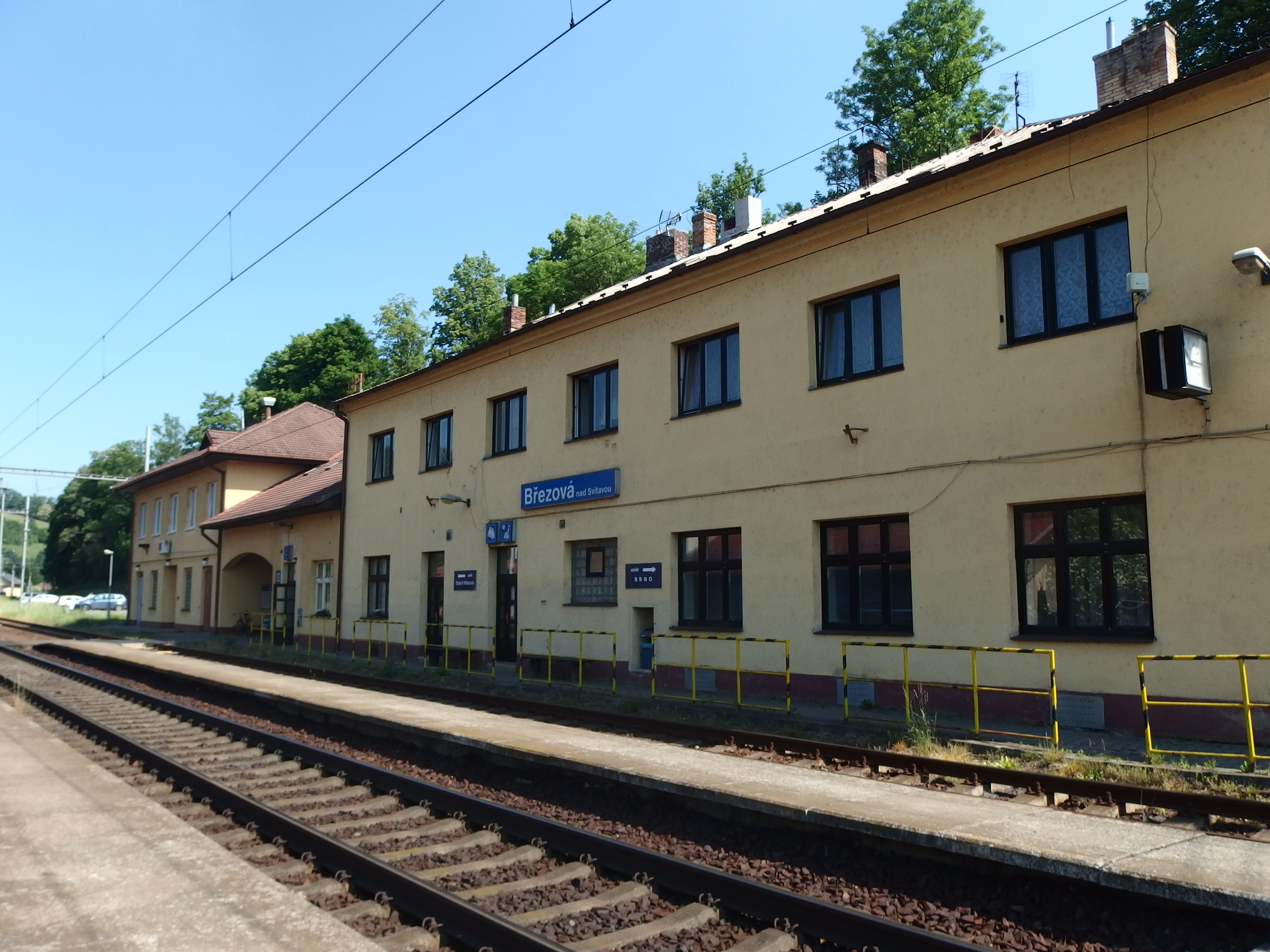 Březová nad Svitavou, Svitavy District, Czech Republic. Train station.